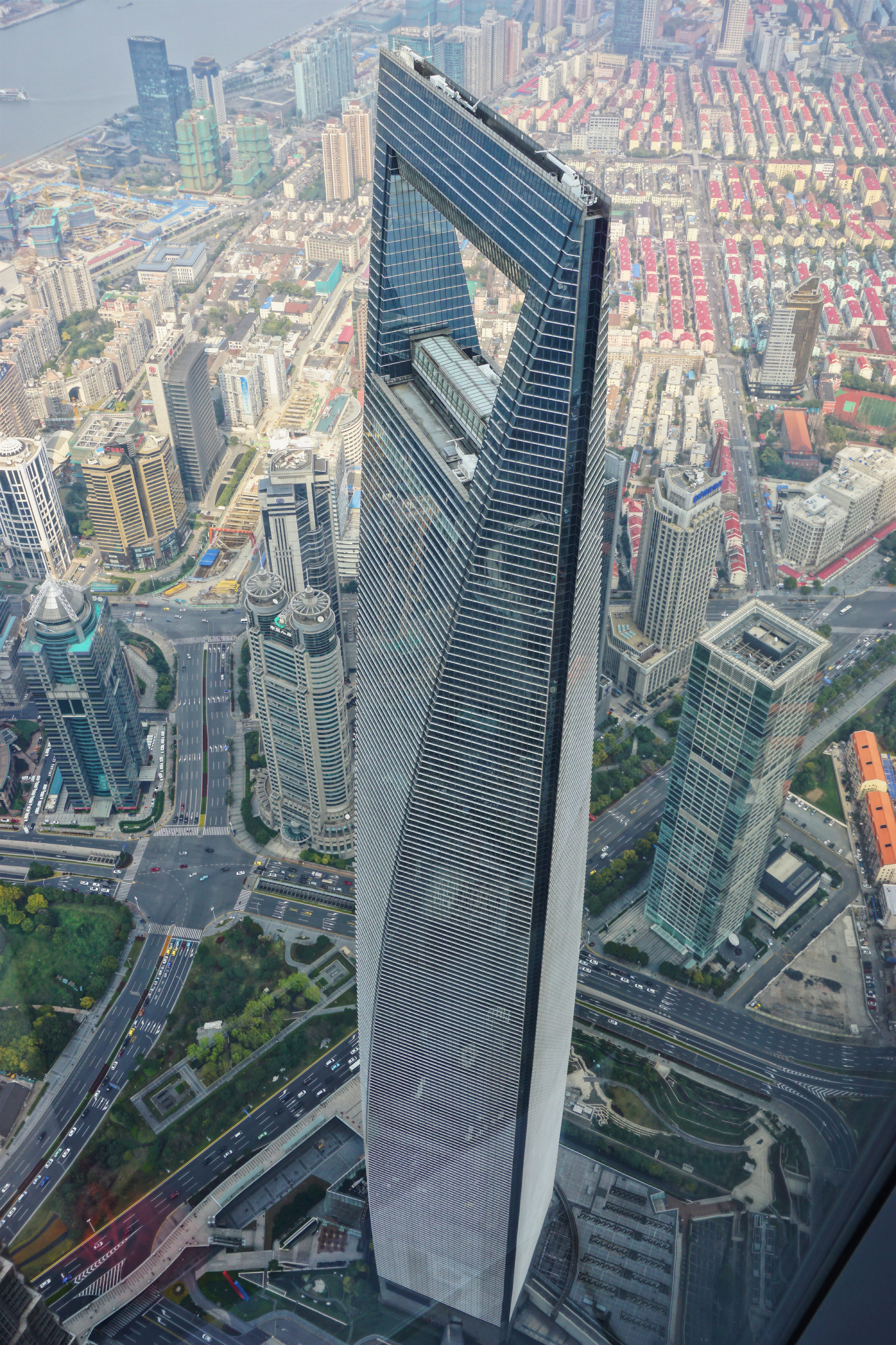 The Shanghai International Finance Center, taken from the 118th floor of the Shanghai Center. 中文（中国大陆）: 于2017年3月26日在上海中心118层观光厅拍摄的上海国际金融中心